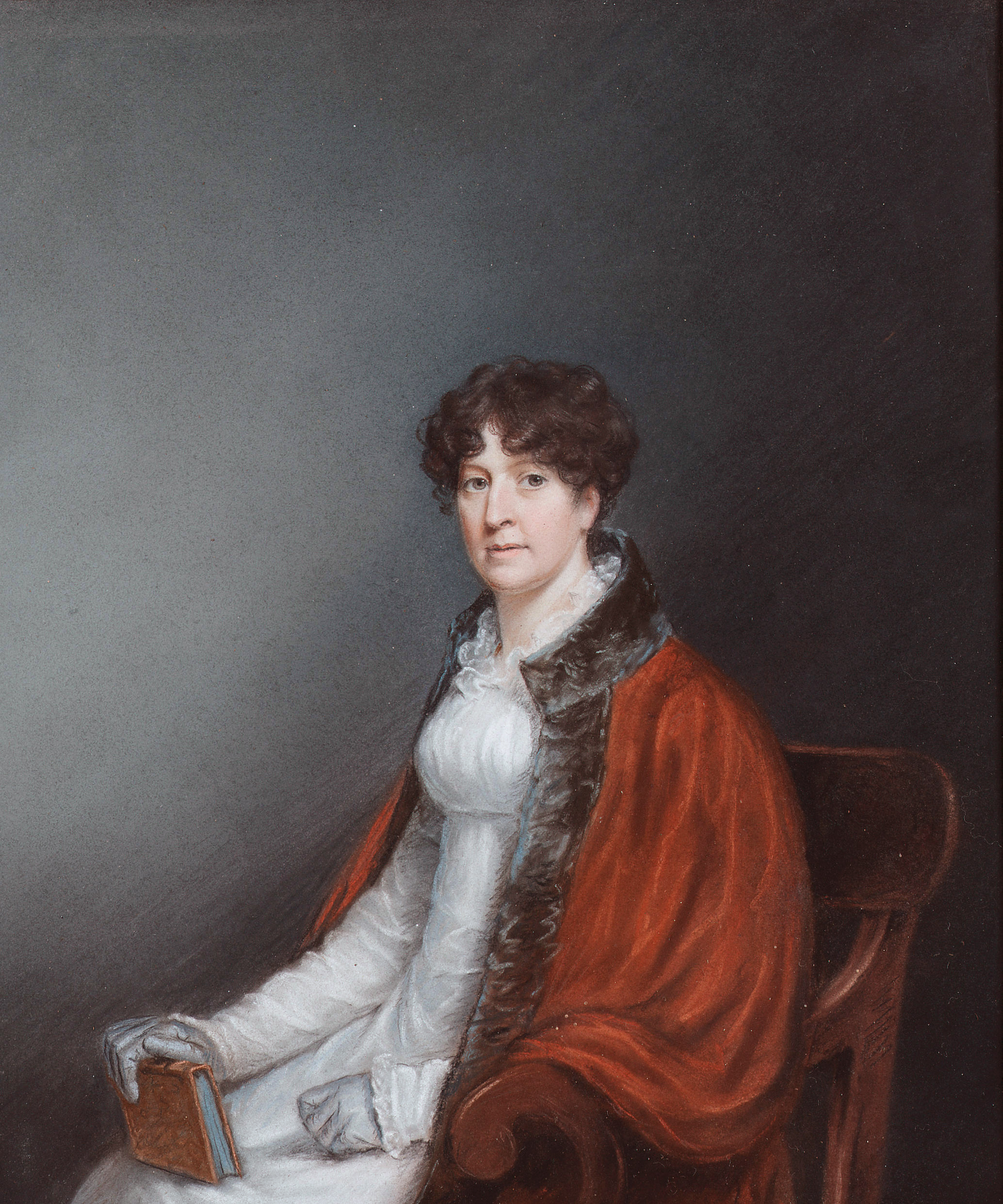 Lady Mary Acheson (1787–1843), married (1803) Lord William Bentinck, Governor of Madras